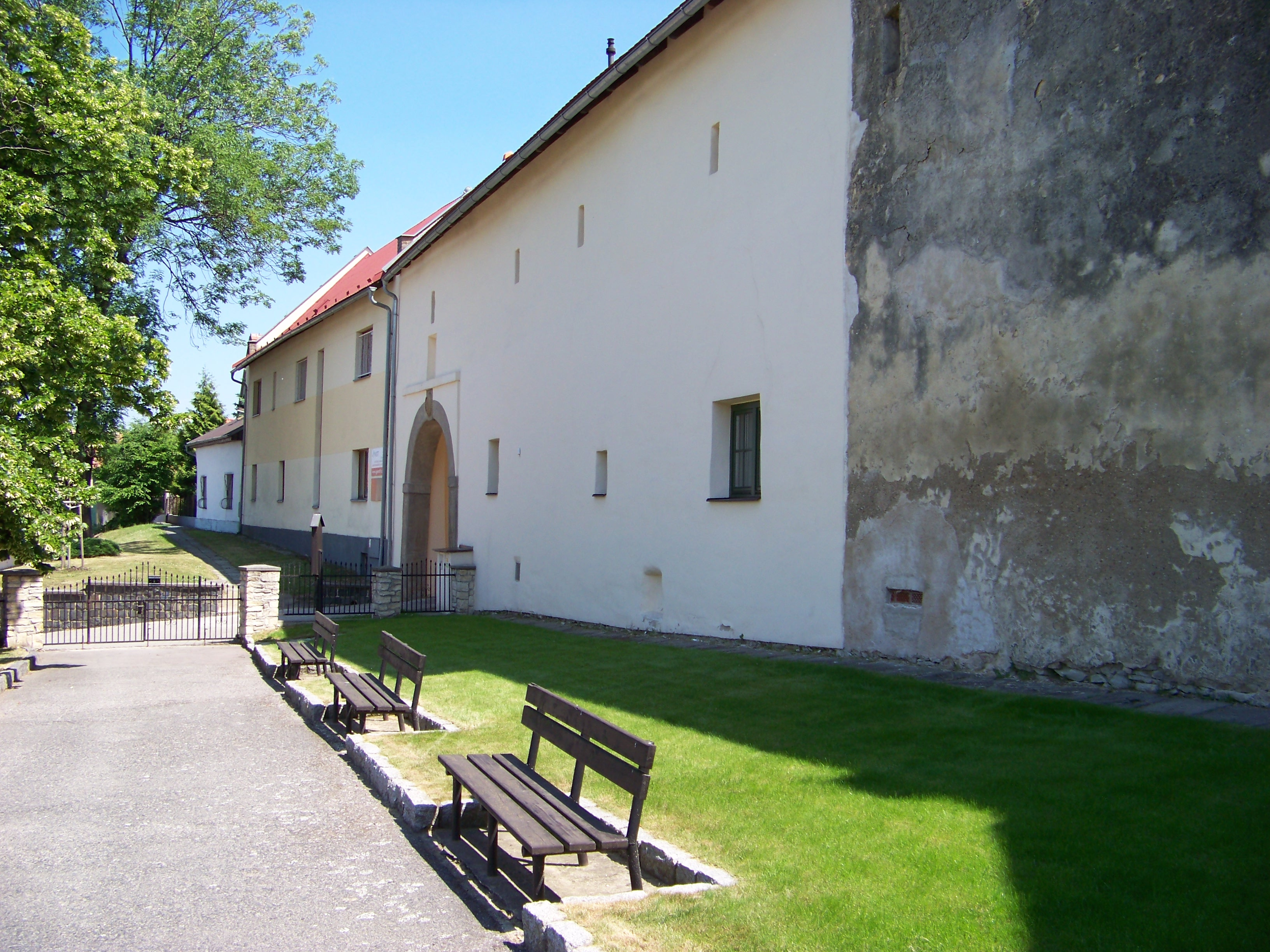 Prague-Přední Kopanina, the Czech Republic. - OpenStreetMap(Info)